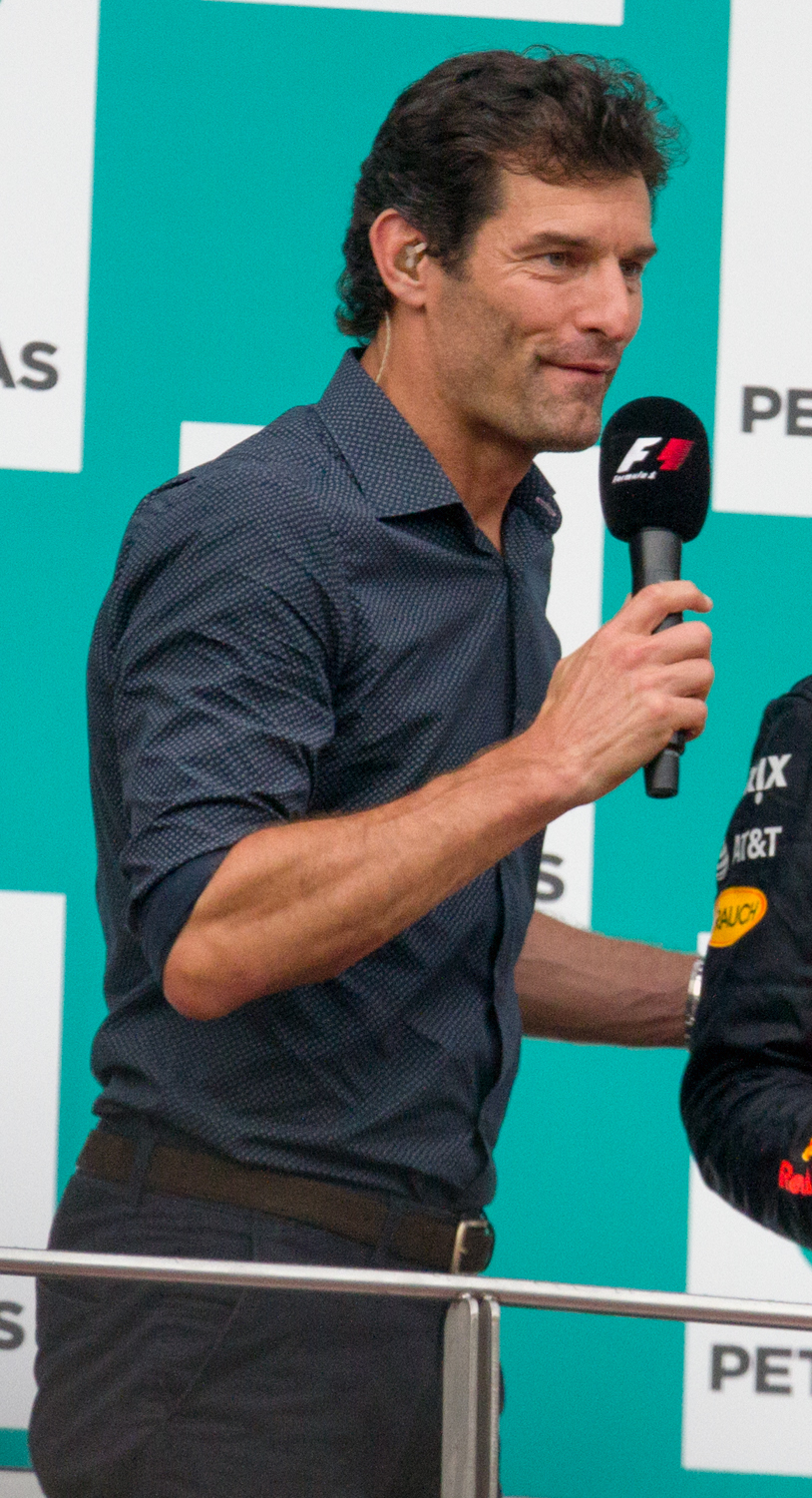 Formula One 2017 Rd.15 Malaysian GP: Daniel Ricciardo (Red Bull) at podium